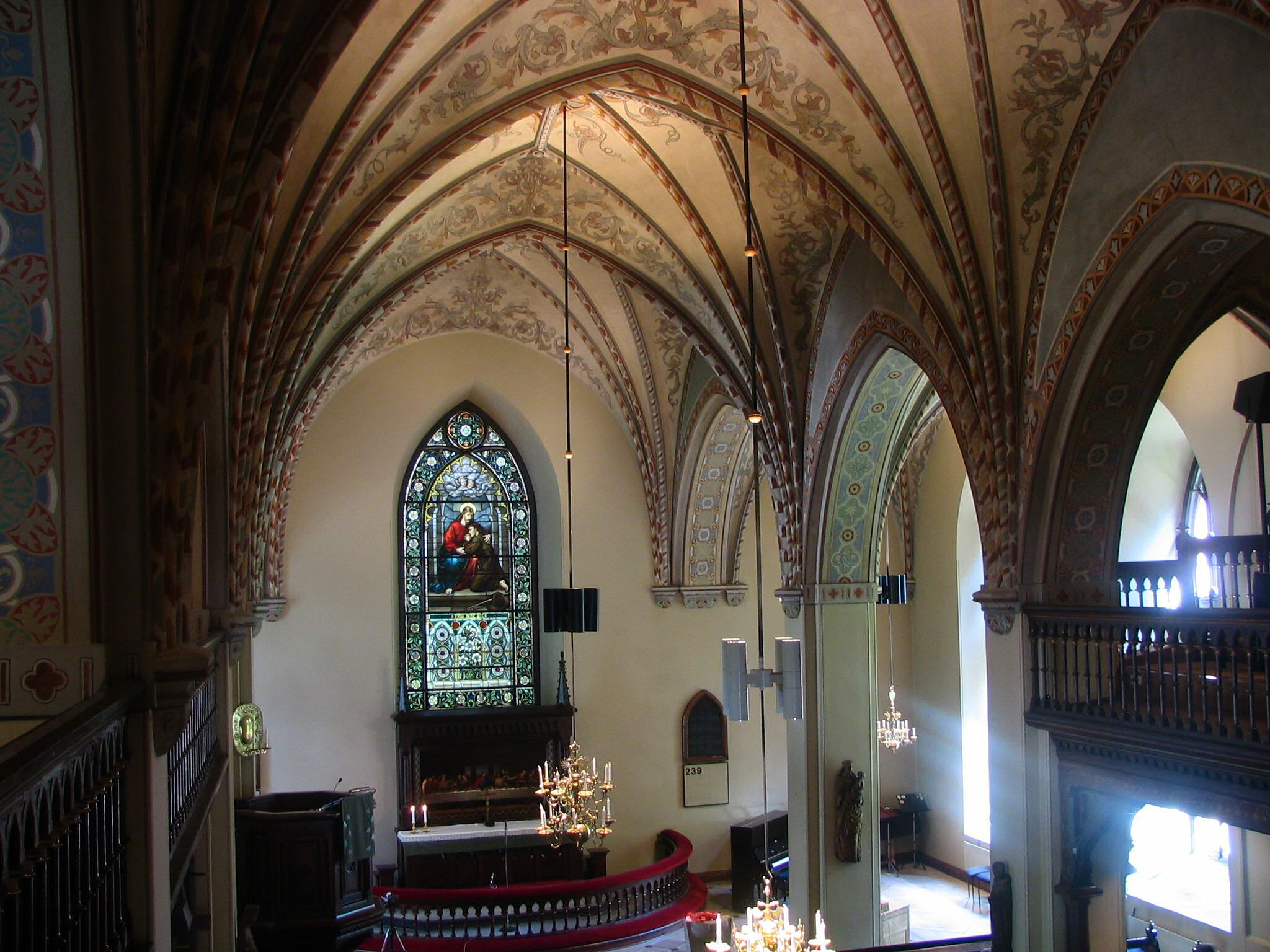 Inside of Gothic era Pyhan Laurin Vantaa Church, Finland.